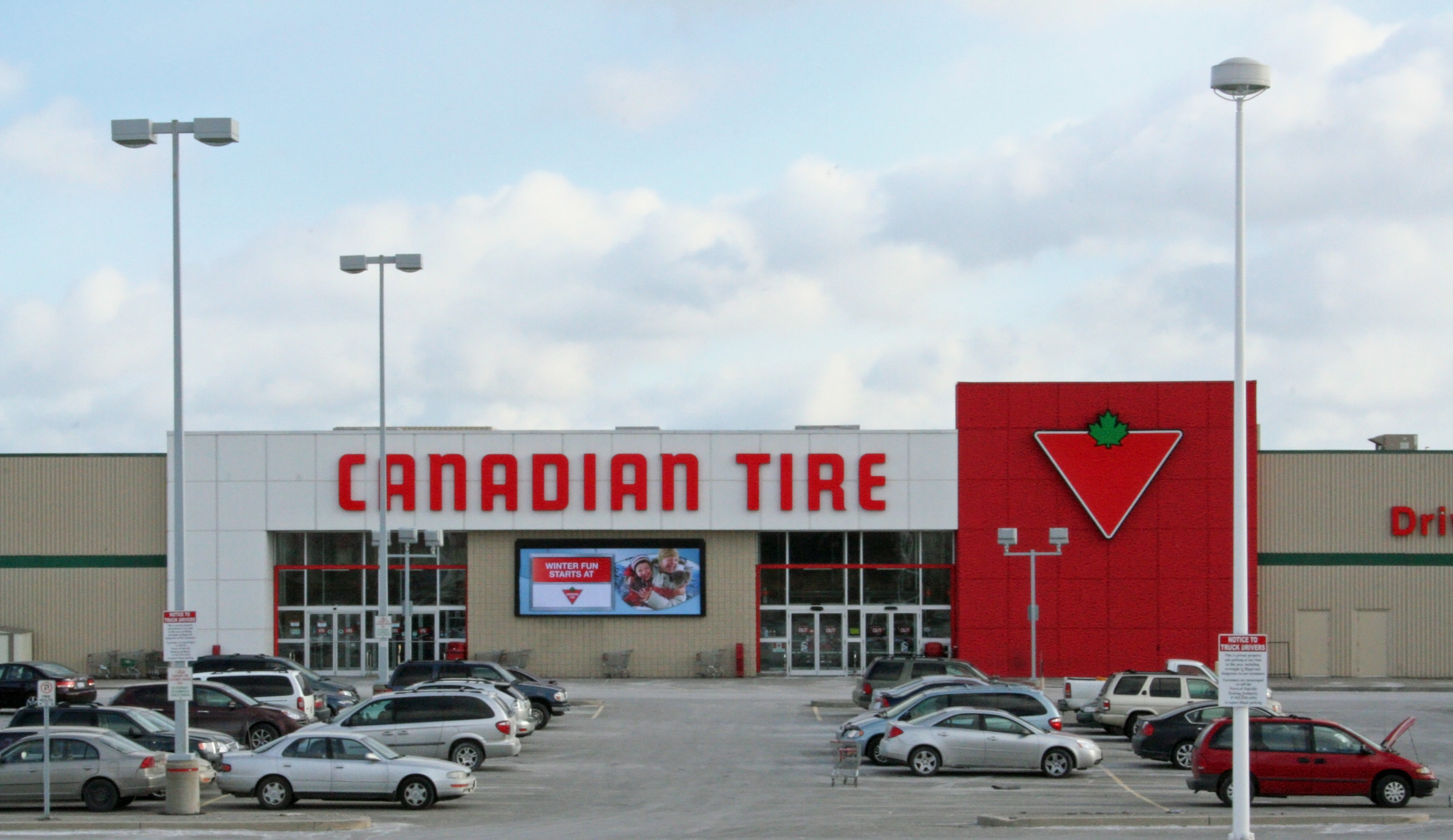 Canadian Tire store in Oakville, Ontario, Canada